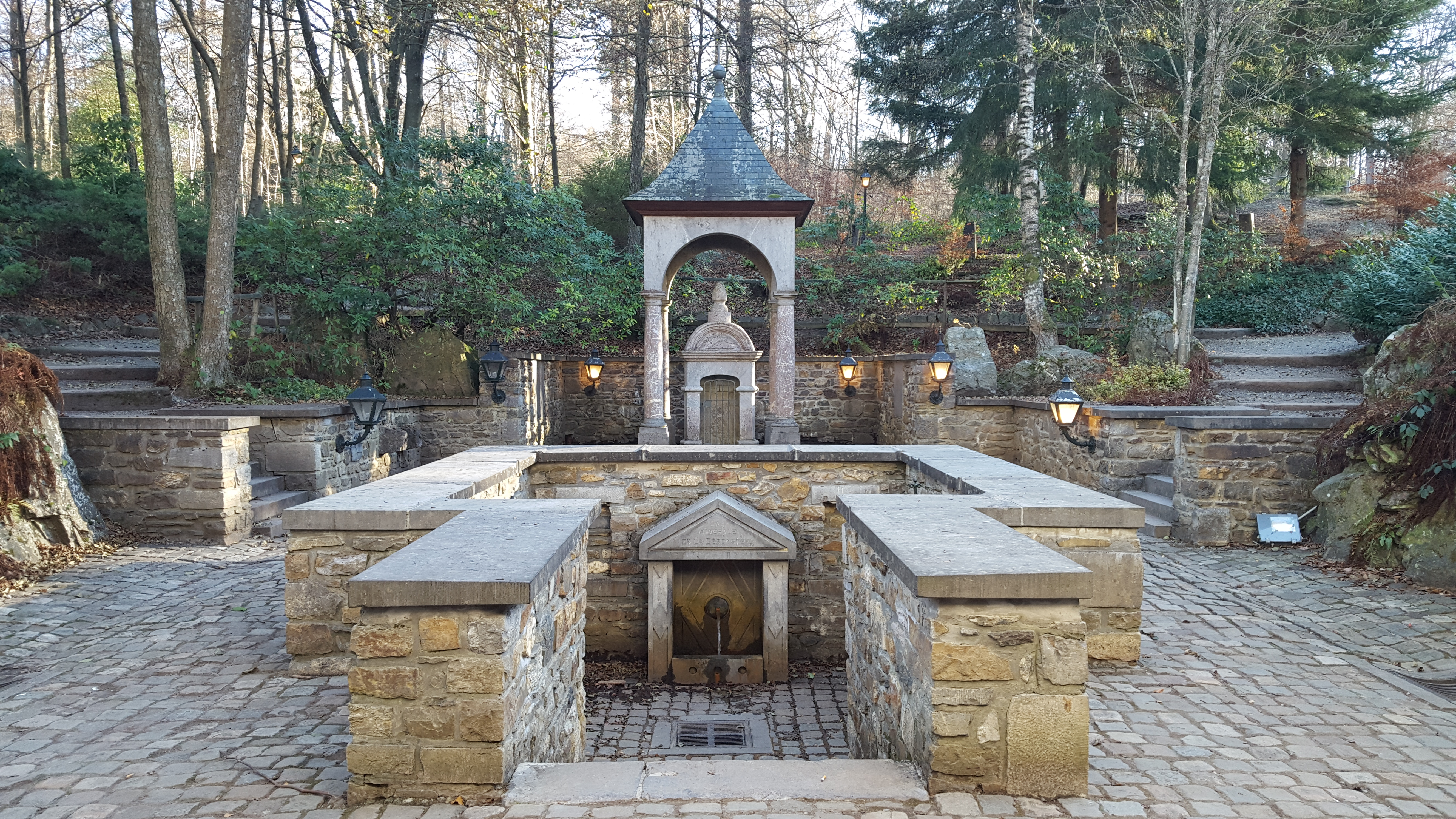 Source de la Géronstère, Spa, Belgium